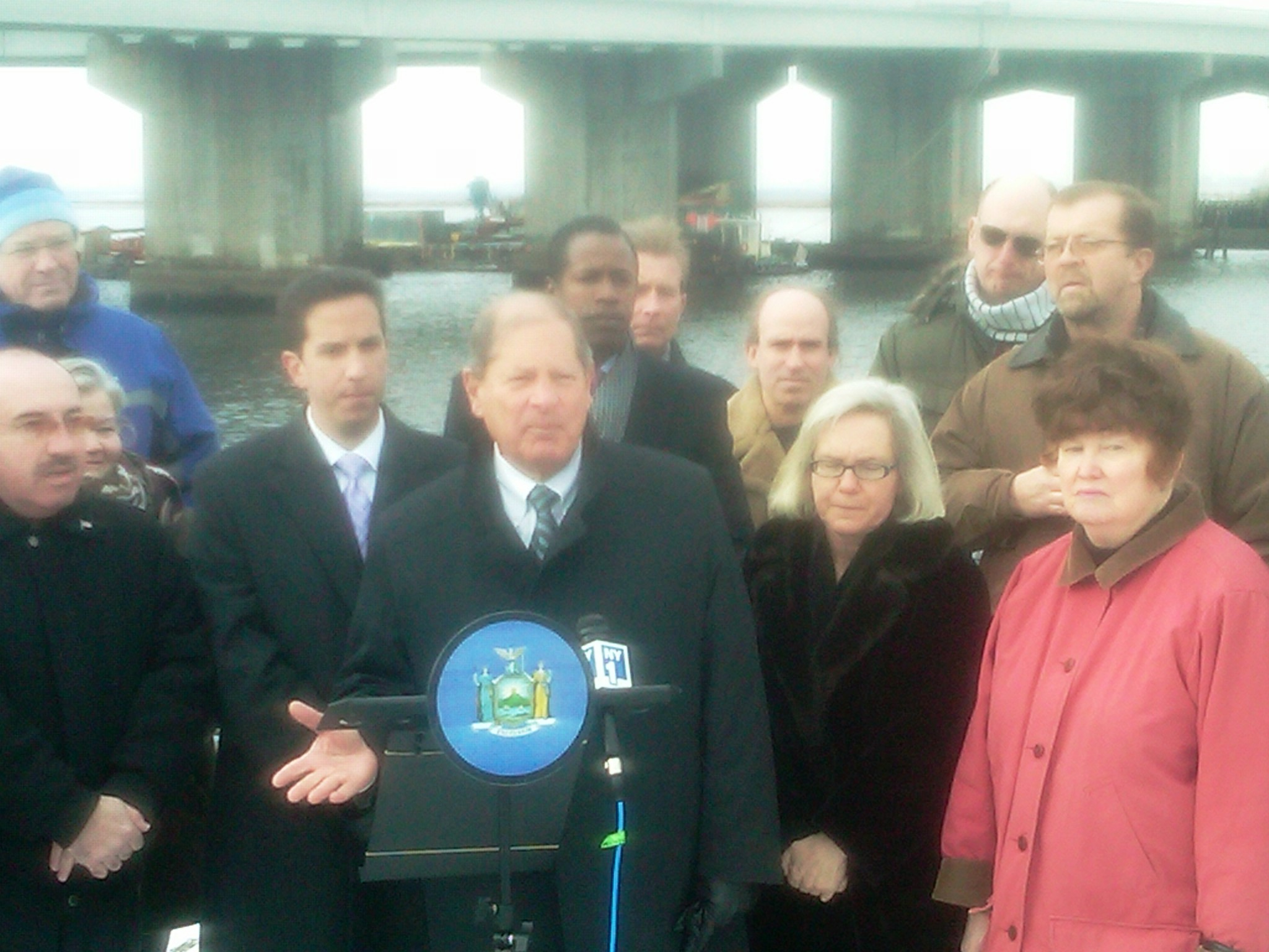 Congressman Bob Turner at a press conference in front of the Cross Bay